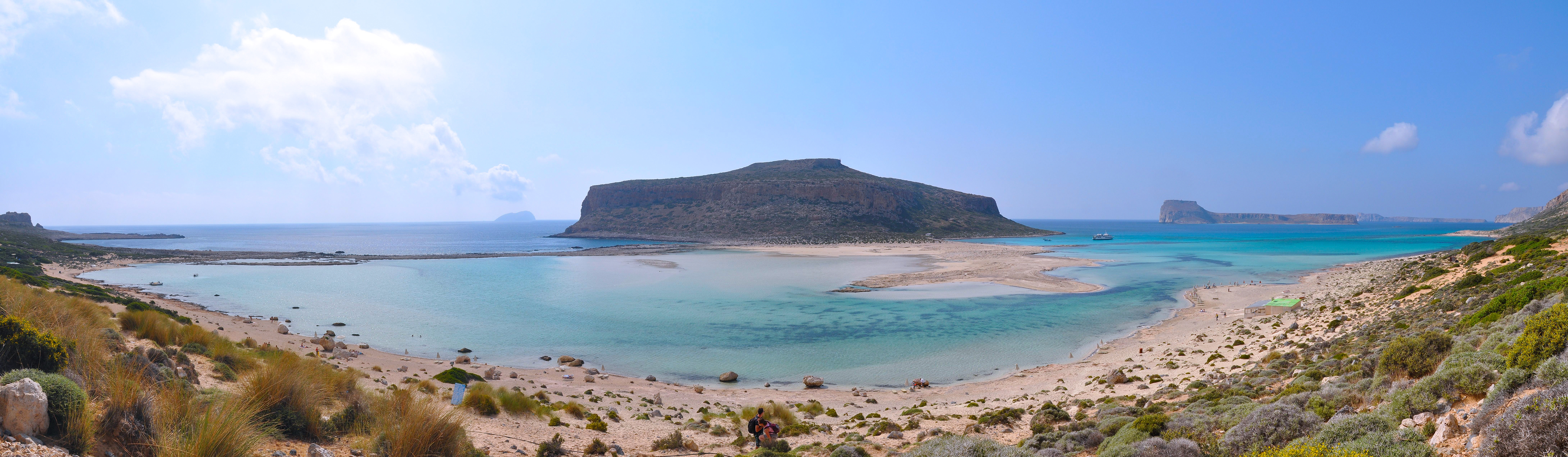 Panoramic view of the bay of Balos at the Cap Tigani peninsula near Kissamos at the north-west cost of Crete in Greece.